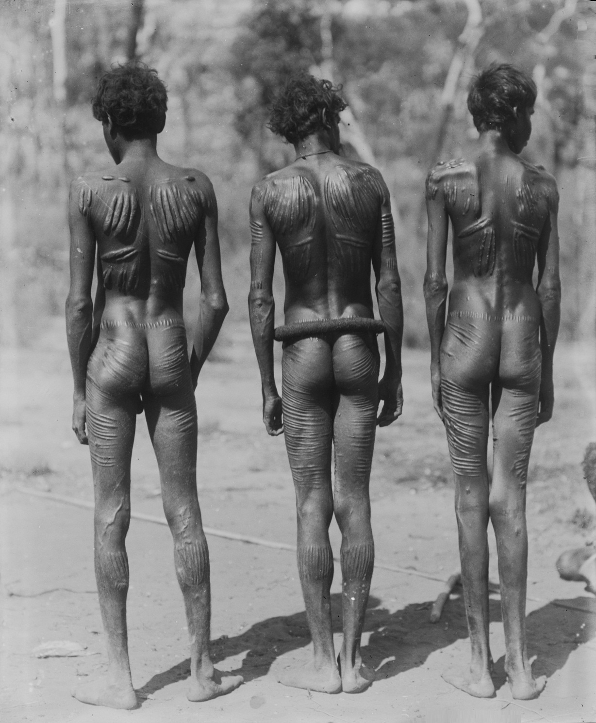 Showing three standing Aboriginal men viewed from behind; all show prominent cicatrices (body scars); the man in the centre also wears a waist band and a string necklace (Port George IV, Western Australia).